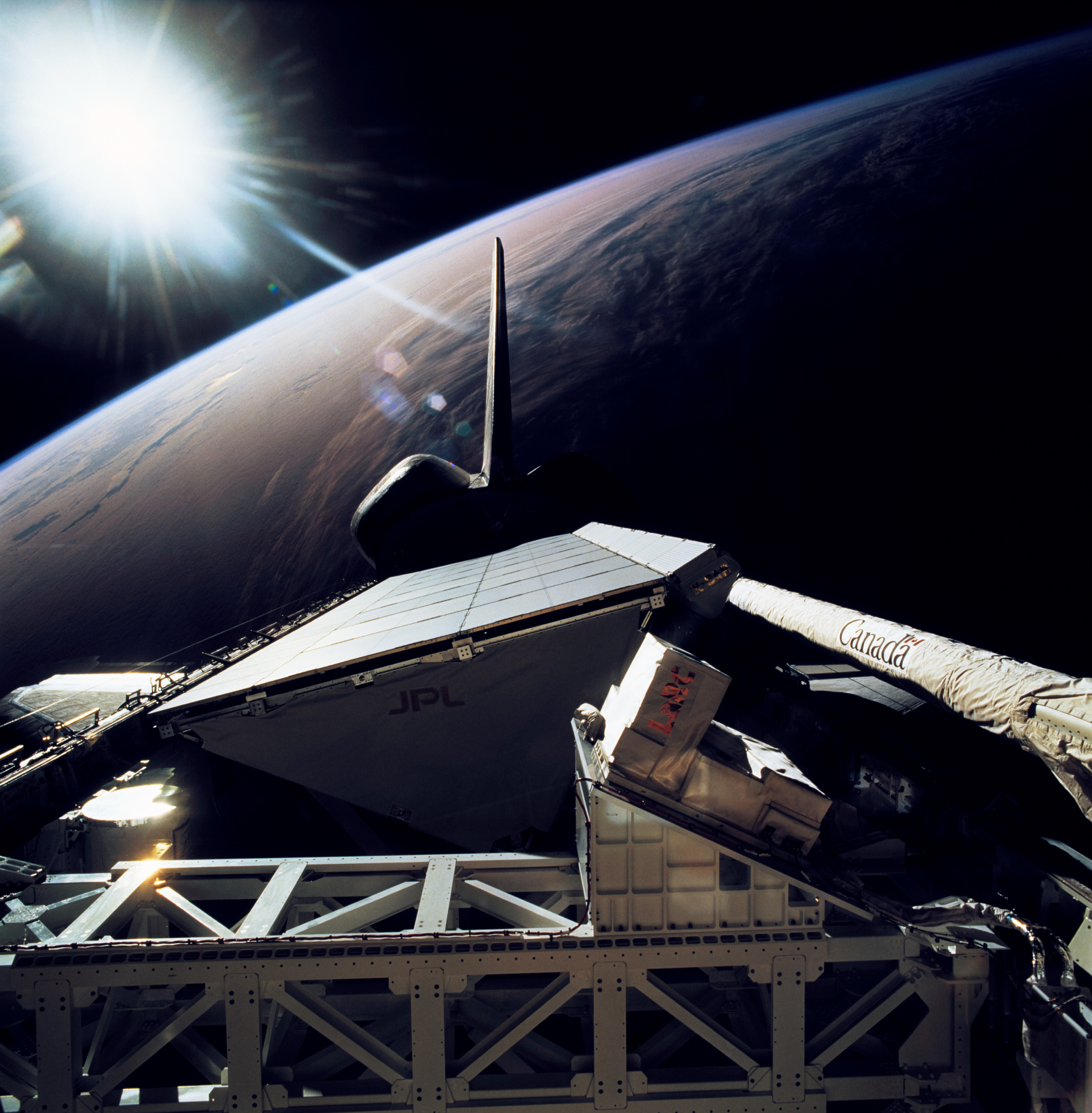 The rear windows of the Space Shuttle Endeavour reflect sunlight in this view of part of the cargo bay, 115 nautical miles above the Earth. The Space Radar Laboratory (SRL-2) Multipurpose Experiment Support Structure (MPESS) is seen at bottom frame. Also partially seen are other experiments including other components of the primary payload. They are the antenna for the Spaceborne Imaging Radar (SIR-C), the X-band Synthetic Aperture Radar (X-SAR), the device for Measurement of Air Pollution from Satellites (MAPS) and some Getaway Special (GAS) canisters.